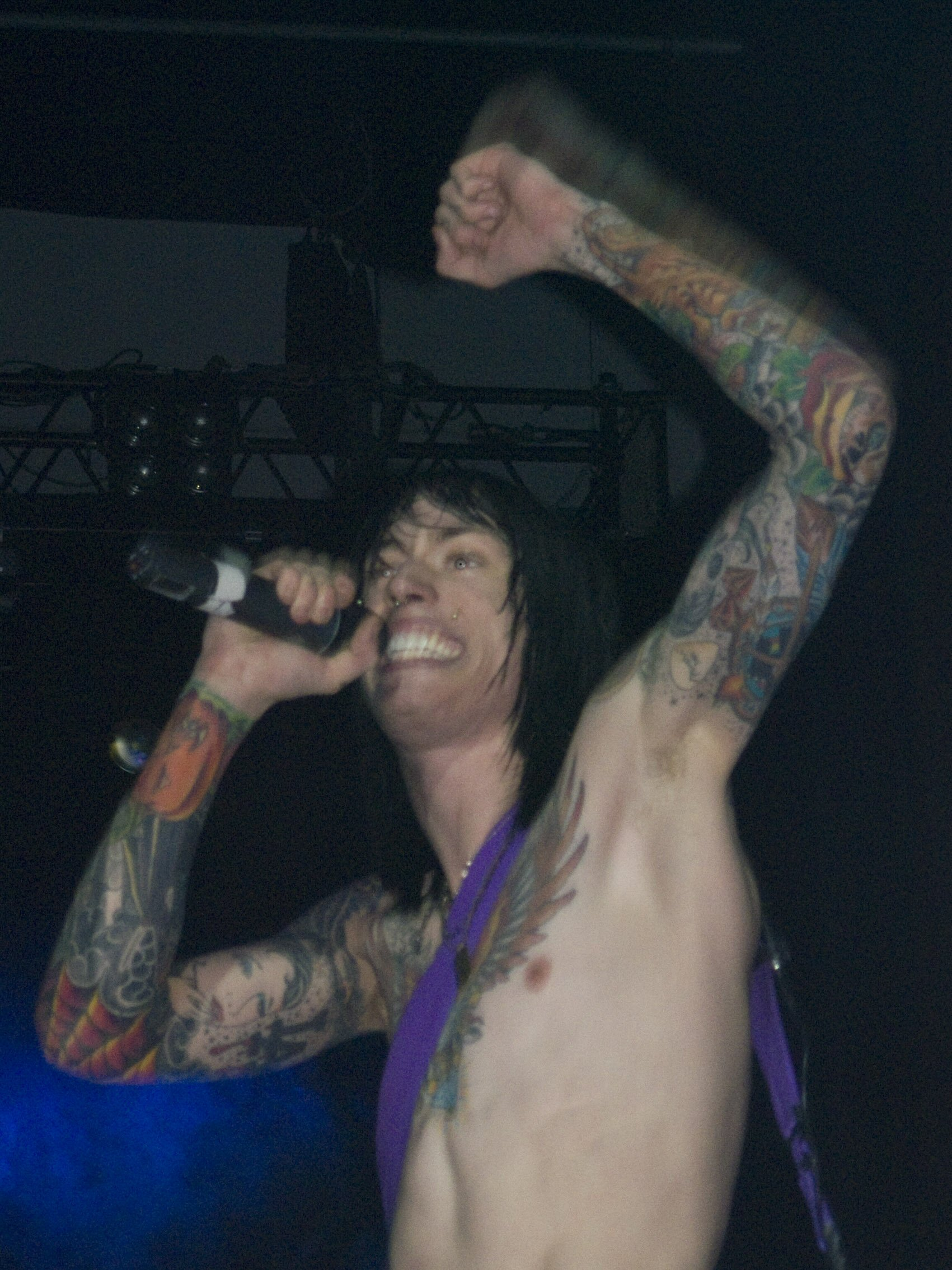 Trace Cyrus, vocalist of the band Metro Station, son of country music star Billy Ray Cyrus, brother of Hannah Montana star Miley Cyrus.